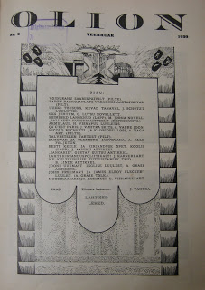 Olion, esikaas, veebruar 1930